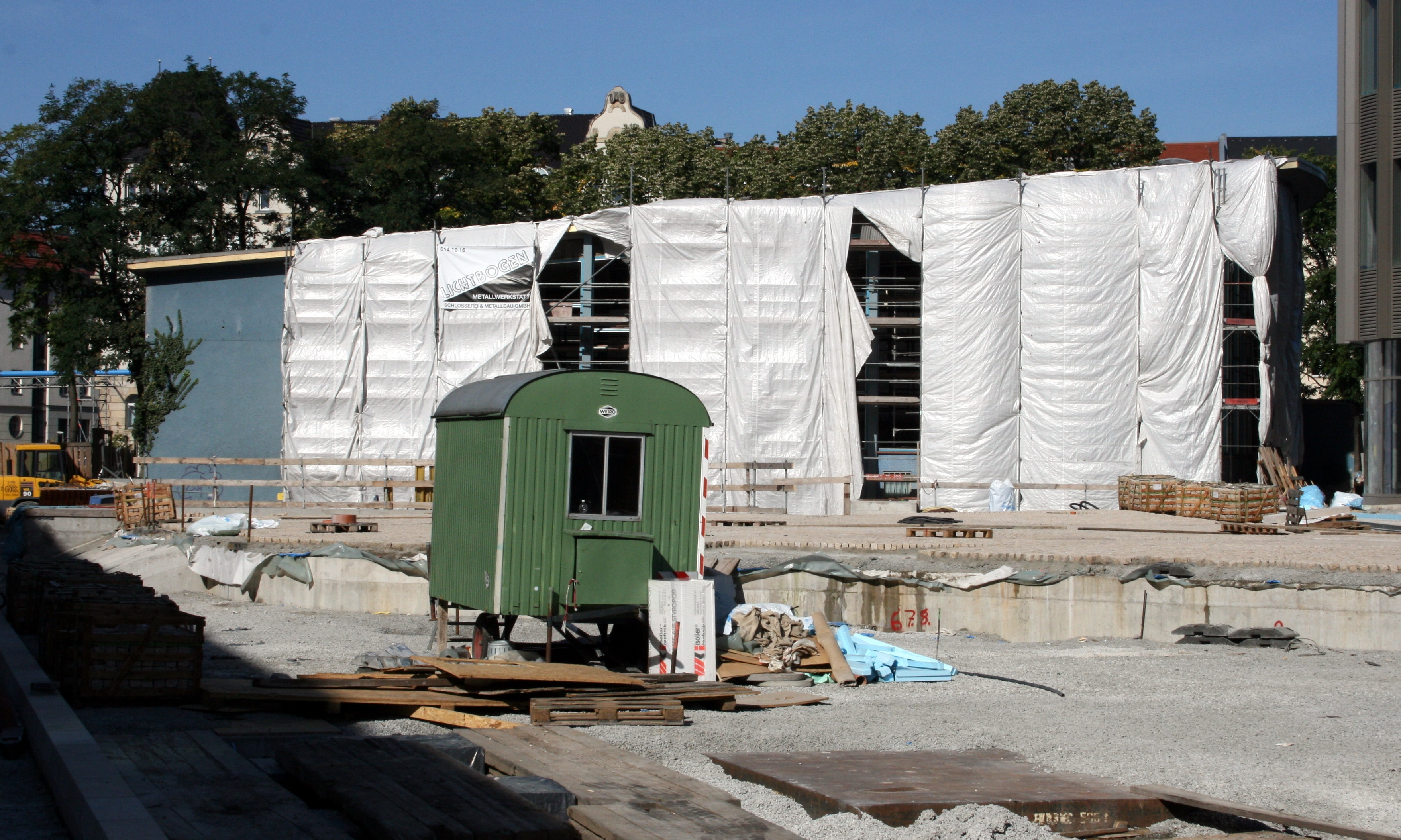 Part of the former frontier between West- and East-Berlin at Railwaystation “Friedrichstrasse”. "Tränenpalast" means "tears palace". After the revolution of 1989 and German reunification, the building was used as an event hall for concerts, parties, etc. In July 2006, the Palace of Tears was closed and then renovated. Here, the building was restored to the original state of 1962. Since September 2011, the former check-in hall of the border crossing point is used by the Bonn Haus der Geschichte der Bundesrepublik Deutschland as a branch office. With free entry there will be the permanent exhibition "GrenzErfahrungen. Everyday life of the German division" shown there.